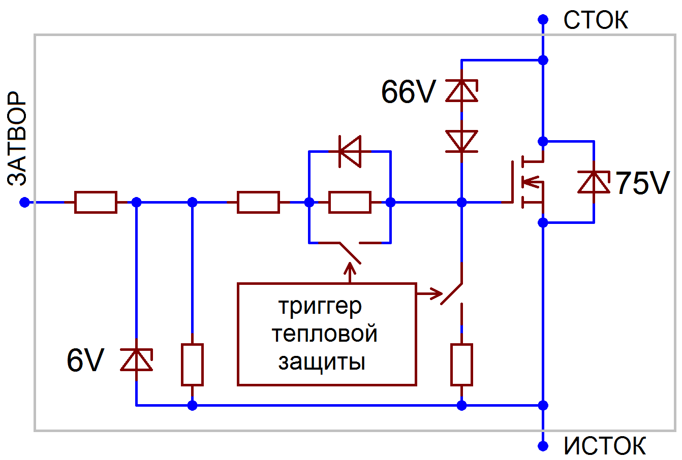 Protection zeners in International Rectifier's automotive "intelligent power switch" (a glorified MOSFET).